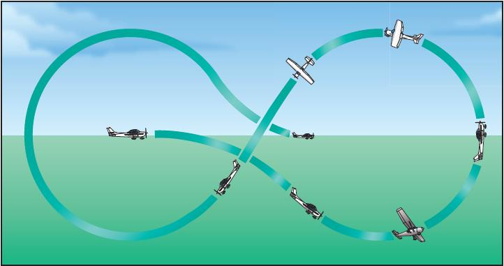 Cuban eight.This is the work of a Government Agency. Although the FAA sells this book for about $17USD it is available, free of charge, at the URL above. The Federal Aviation Administration holds no copyright on this publication.